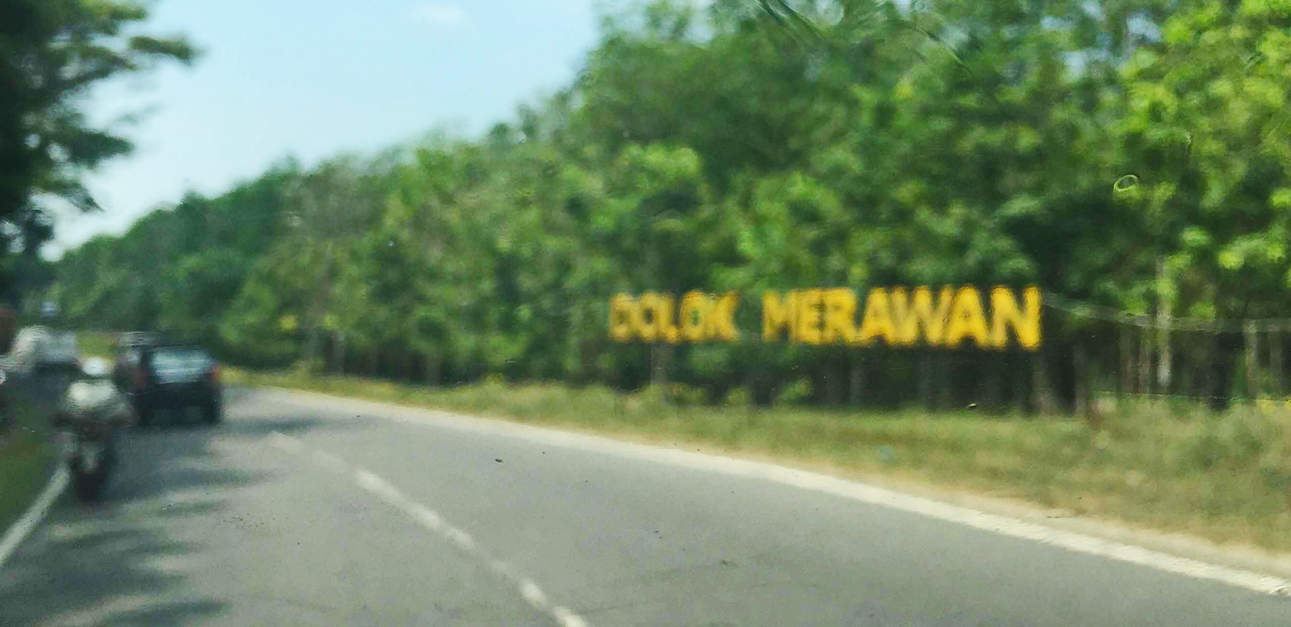 Welcome gate to Dolok Merawan, Serdang Bedagai